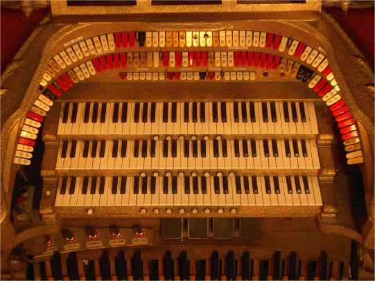 Photo taken, edited and owned by Steven Ball (me) Category:Images of Michigan Category:Images of Detroit, Michigan